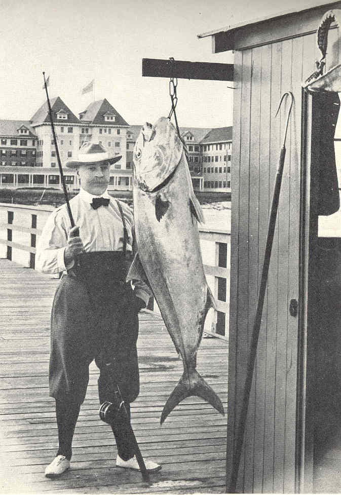 Amber jack, caught at Palm Beach, Florida Subject: Fishers, Seriola, Palm Beach (Florida) Geographic Subject: United States--Florida--Palm Beach Tag: Sport Fishing